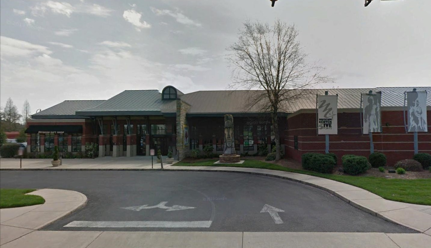 Photo of the exterior of the Museum Center at Five Points